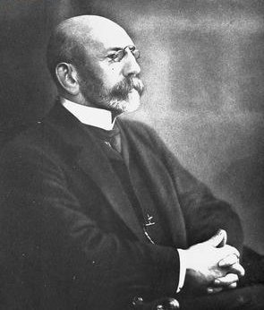 Kazimierz Morawski, Polish philologist, historitian, professor of Jagiellonian University, president of Polish Academy of Learning. Portrait photo.